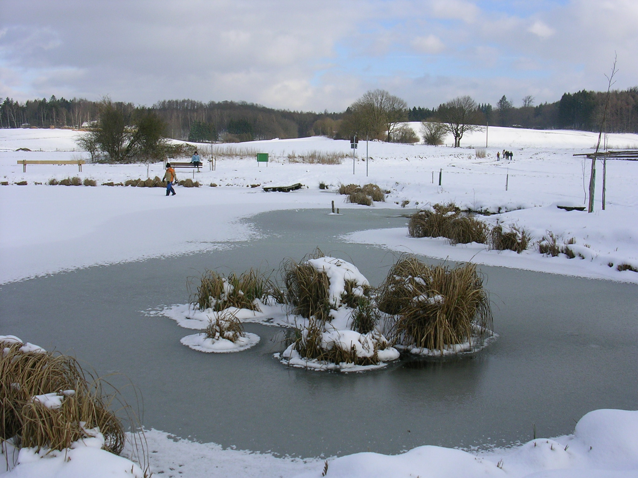 Biotopweiher am Ortsrand